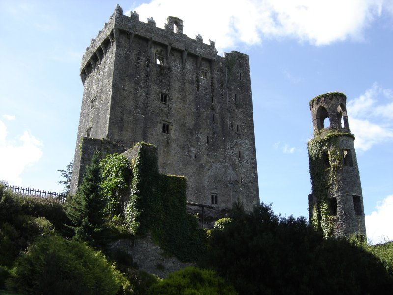 Blarney Castle